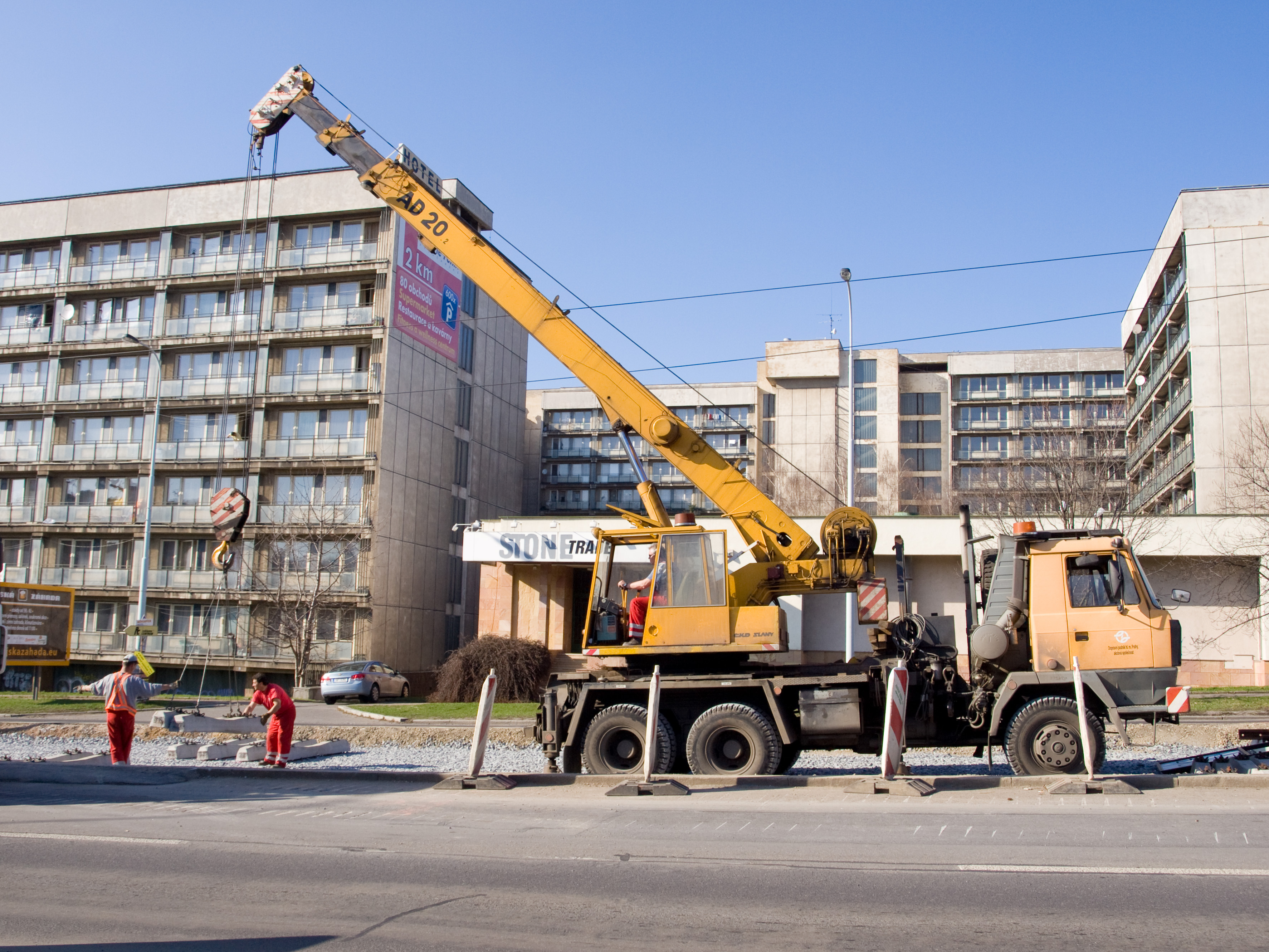 Reconstruction of tram track Starý Hloubětín – Lehovec, Prague 14